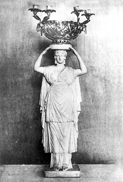 Photograph